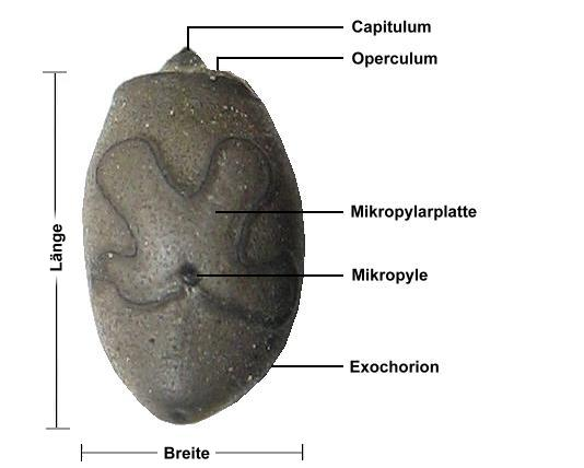 Egg of Müller's Haaniella (Haaniella muelleri)